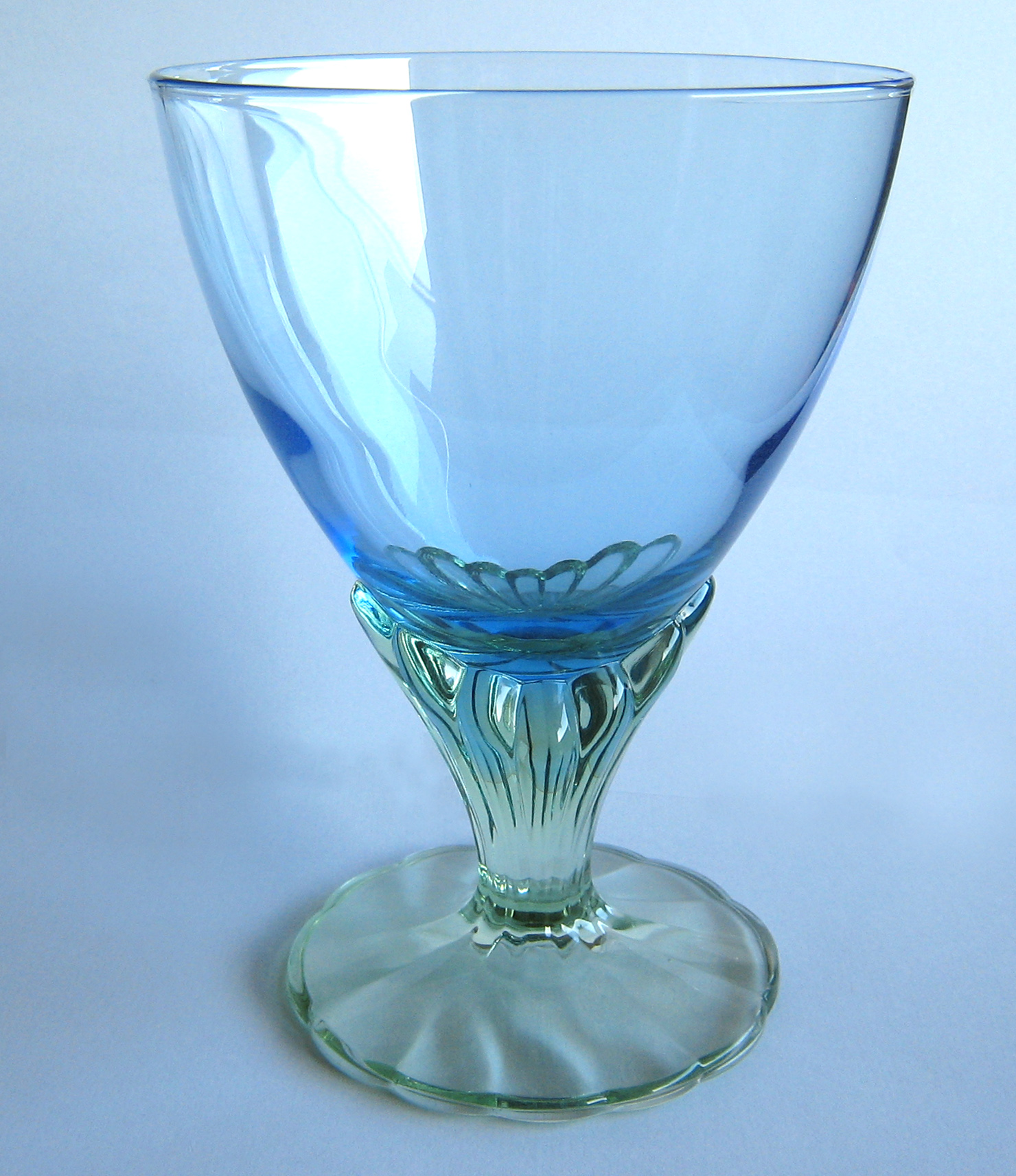 Glass cup by Bormioli Rocco from 2002 in Art Déco style, with a base made of pressed glass.